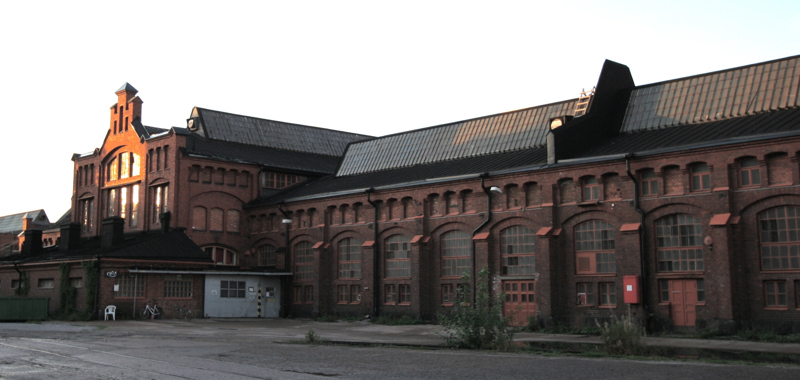 Railway works, Vallila